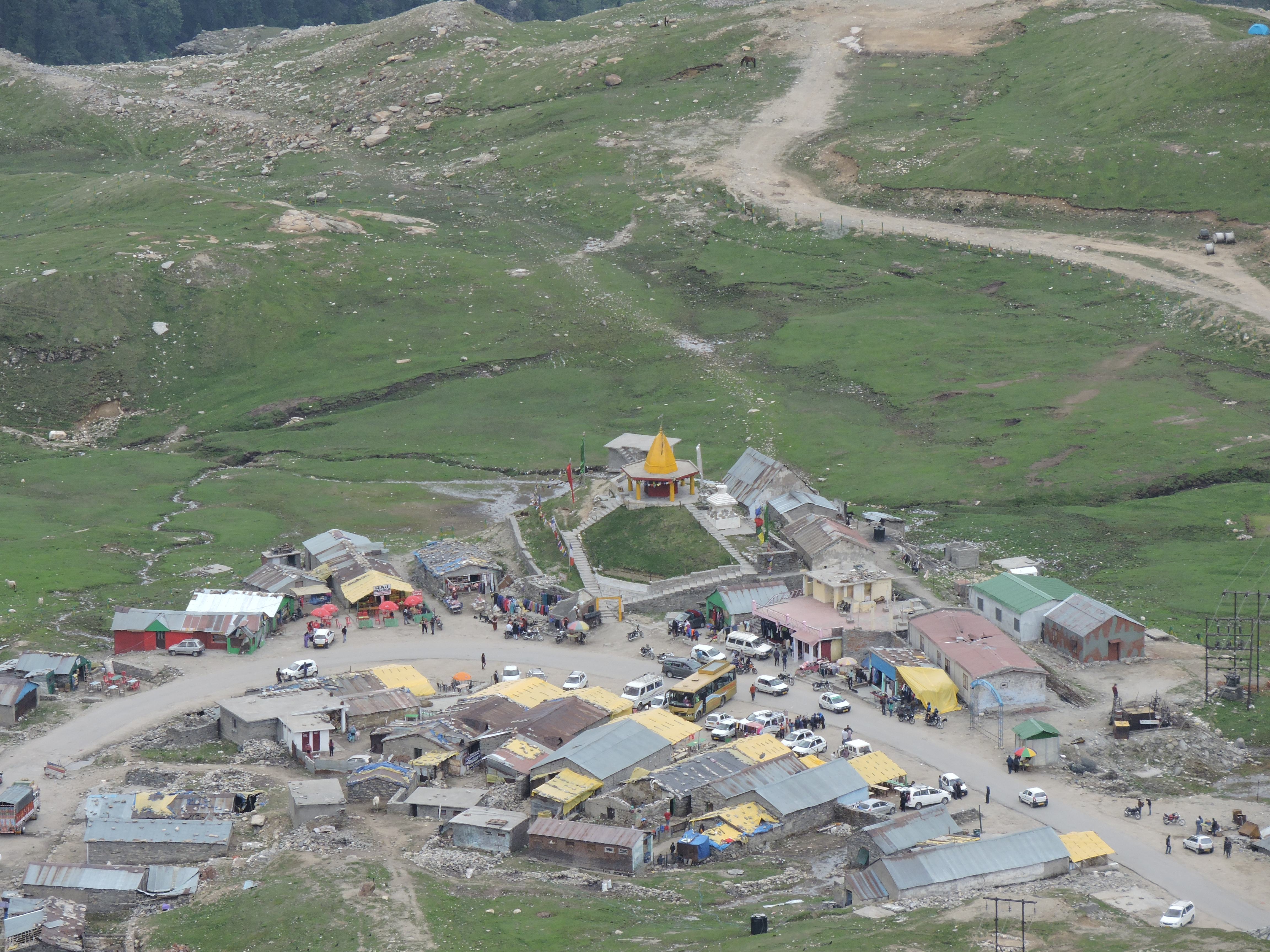 Marhi , roadside restaurant midway town between Manali and Rohtang, Himachal Pardes India.